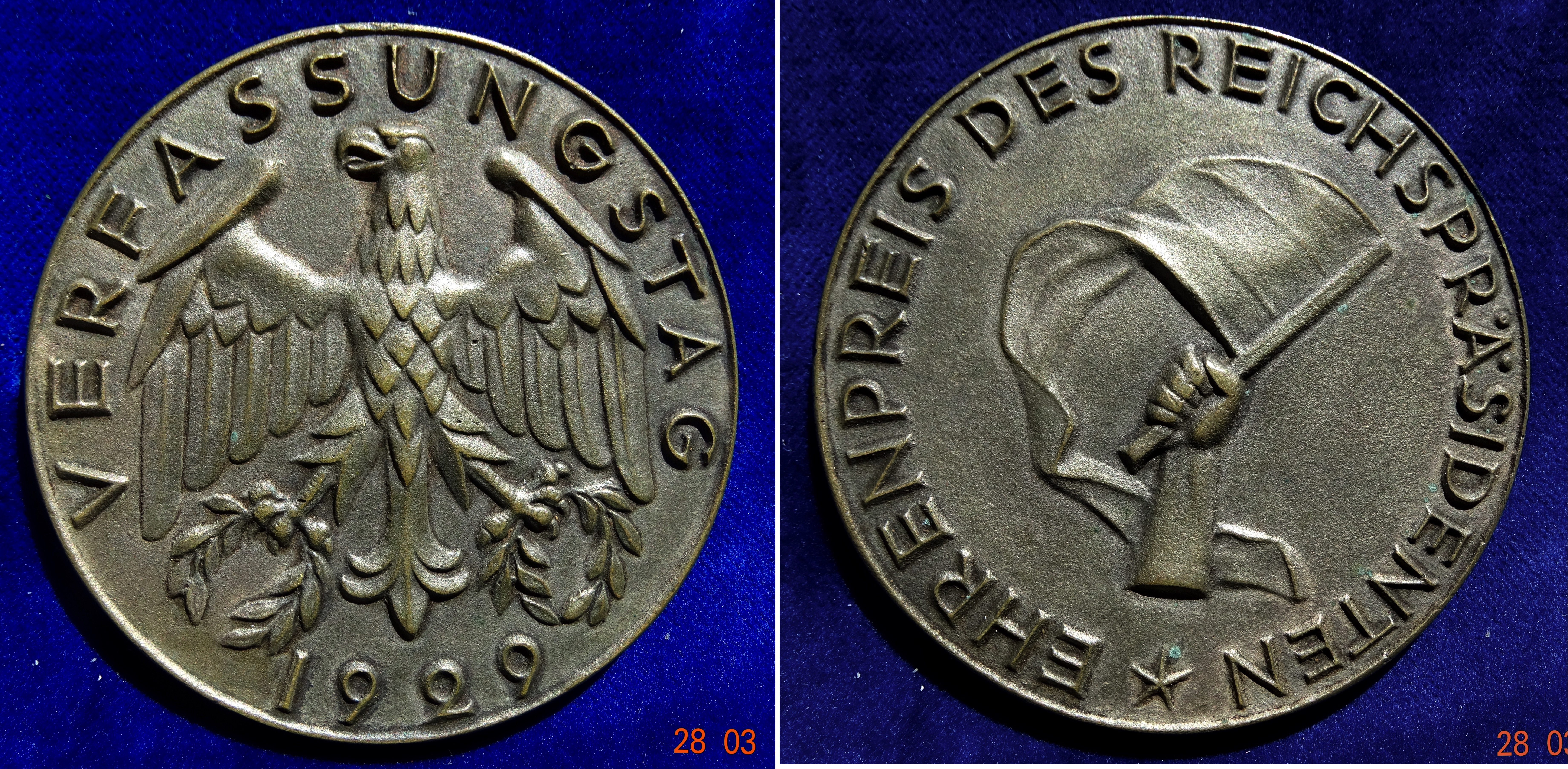 Commemorating the 10th Anniversary of the Weimar Constitution. Bronze medallion, d. = 70 mm The German Eagle, around: "VERFASSUNGSTAG 1929" / Hand with arm holding flag, around: "* EHRENPREIS DES REICHSPRÄSIDENTEN *". Edge lettering: "H. NOACK BERLIN FRIEDENAU" Medallist: H. (Hermann) Noack, fine art foundry Berlin-Friedenau, 1867 - 1941 Condition: As cast.